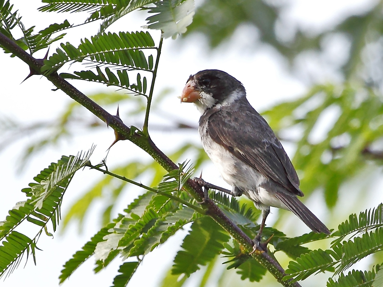 White-throated Seedeater (male); Potengi, Ceará, Brazil